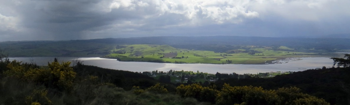 Panorama of Lake Waihola, New Zealand, with the settlement of Waihola visible centre.